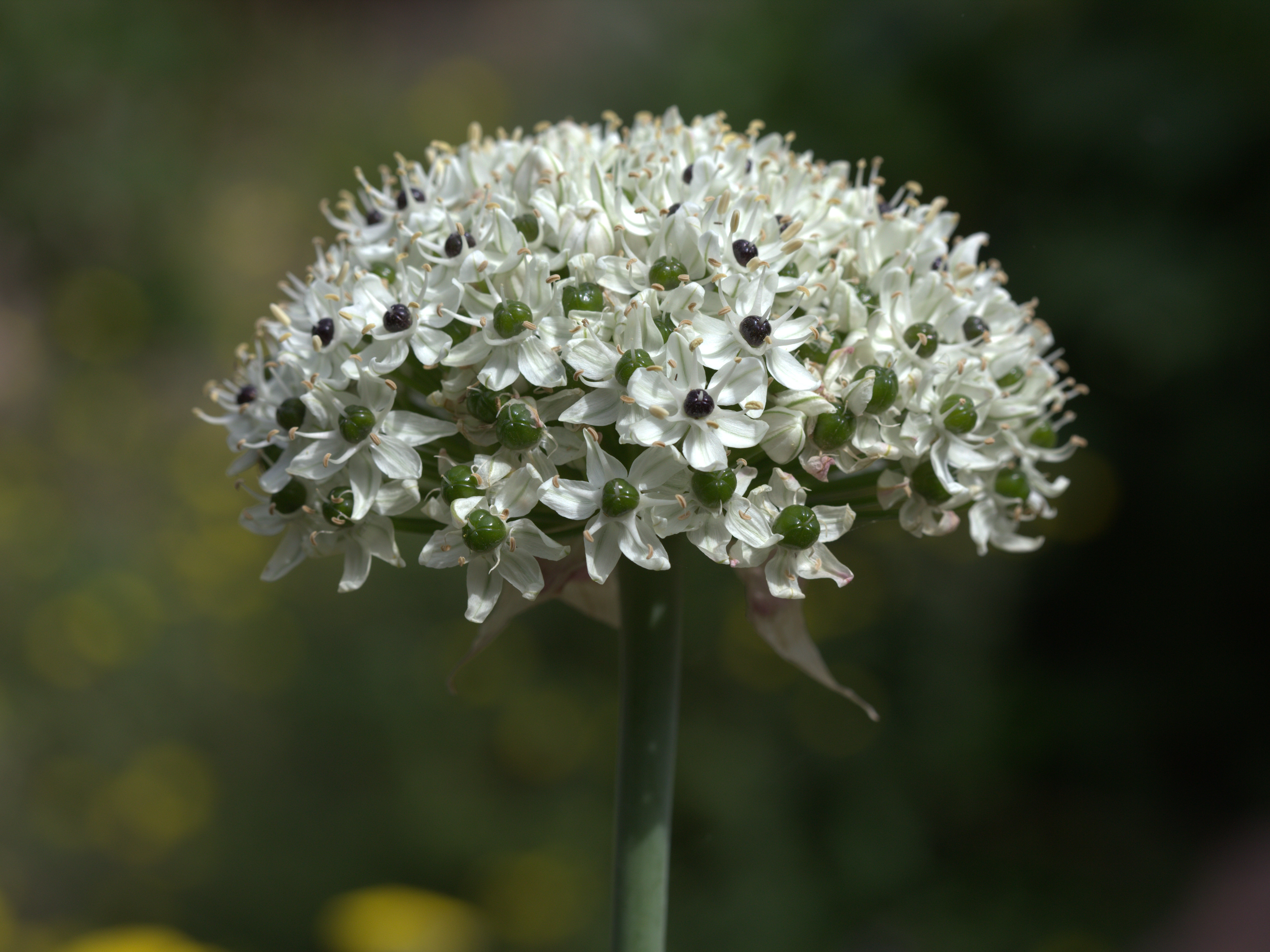 Allium nigrum in Gothenburg Botanical Garden 2015. Plant id: 2001-3193 p W.